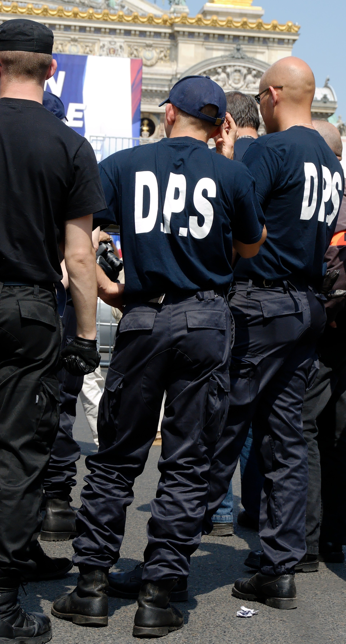 Members of the Department for Protection and Security (DPS) watching the end of the National Front party's annual tribute to Joan of Arc in Paris.